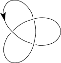 trefoil knot, directed